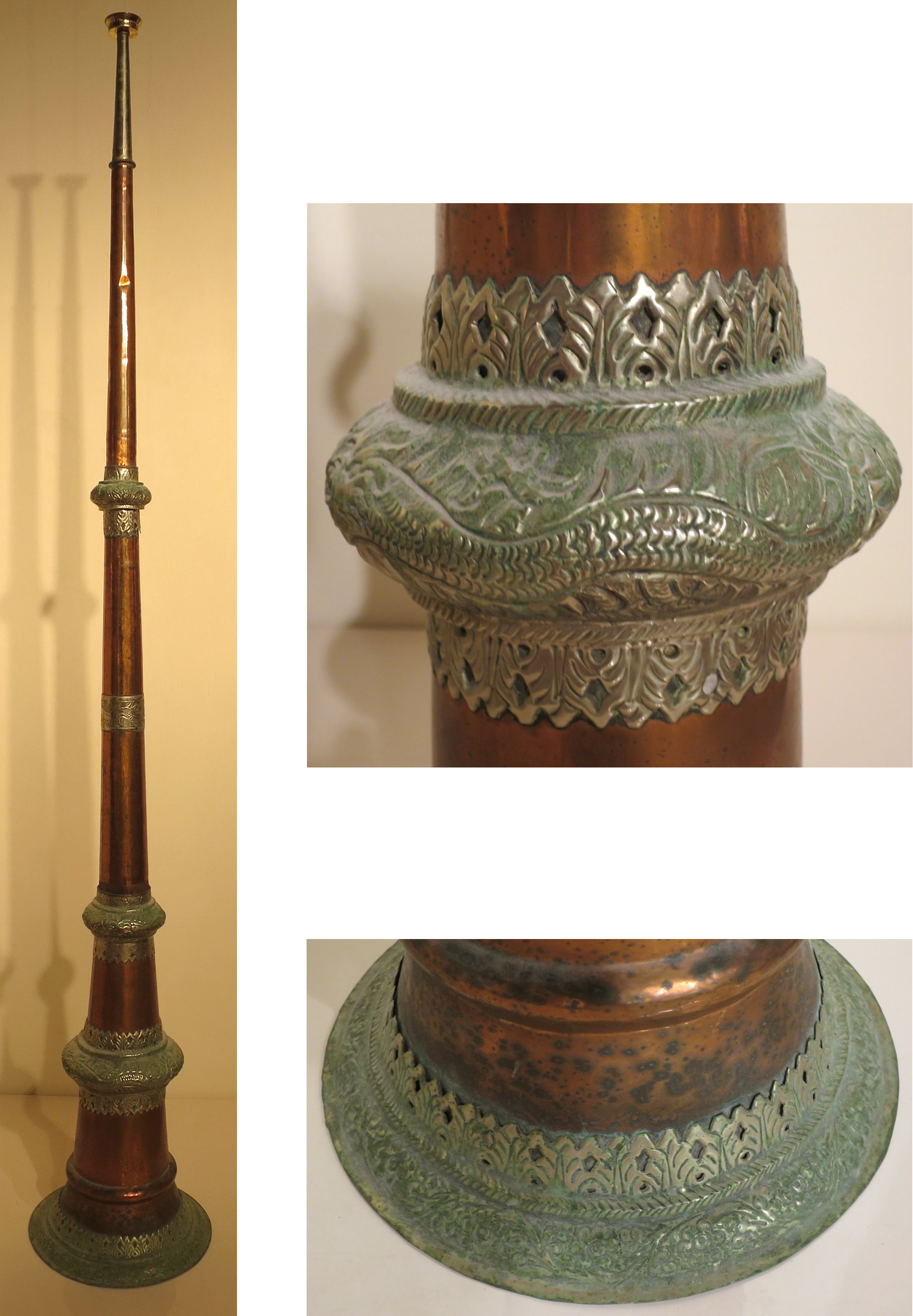 Horn (dungchen), Tamang people, Nepal, mid-20th century